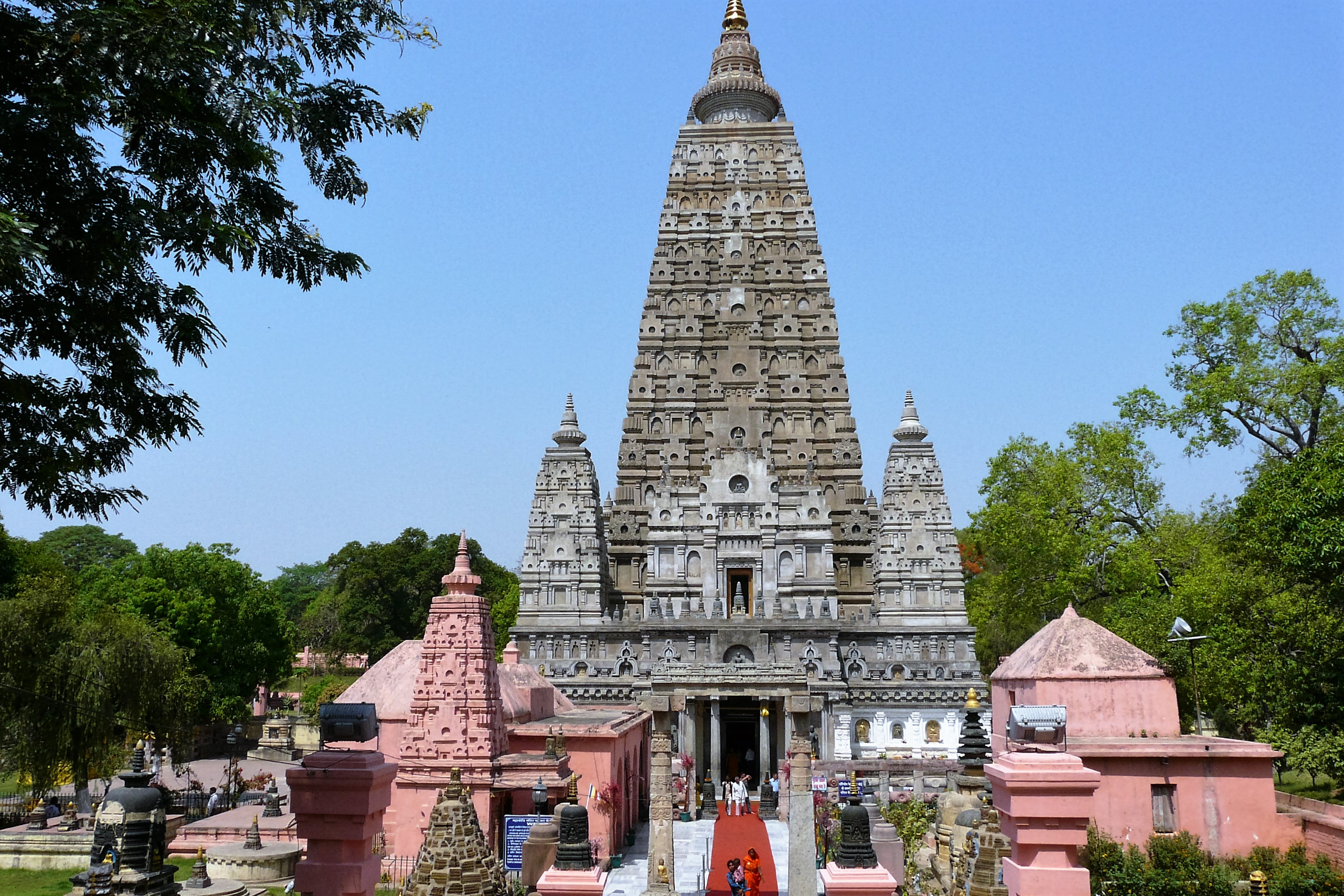 This Temple is at Bodh Gaya, where Gautam Buddha attained enlightenment.